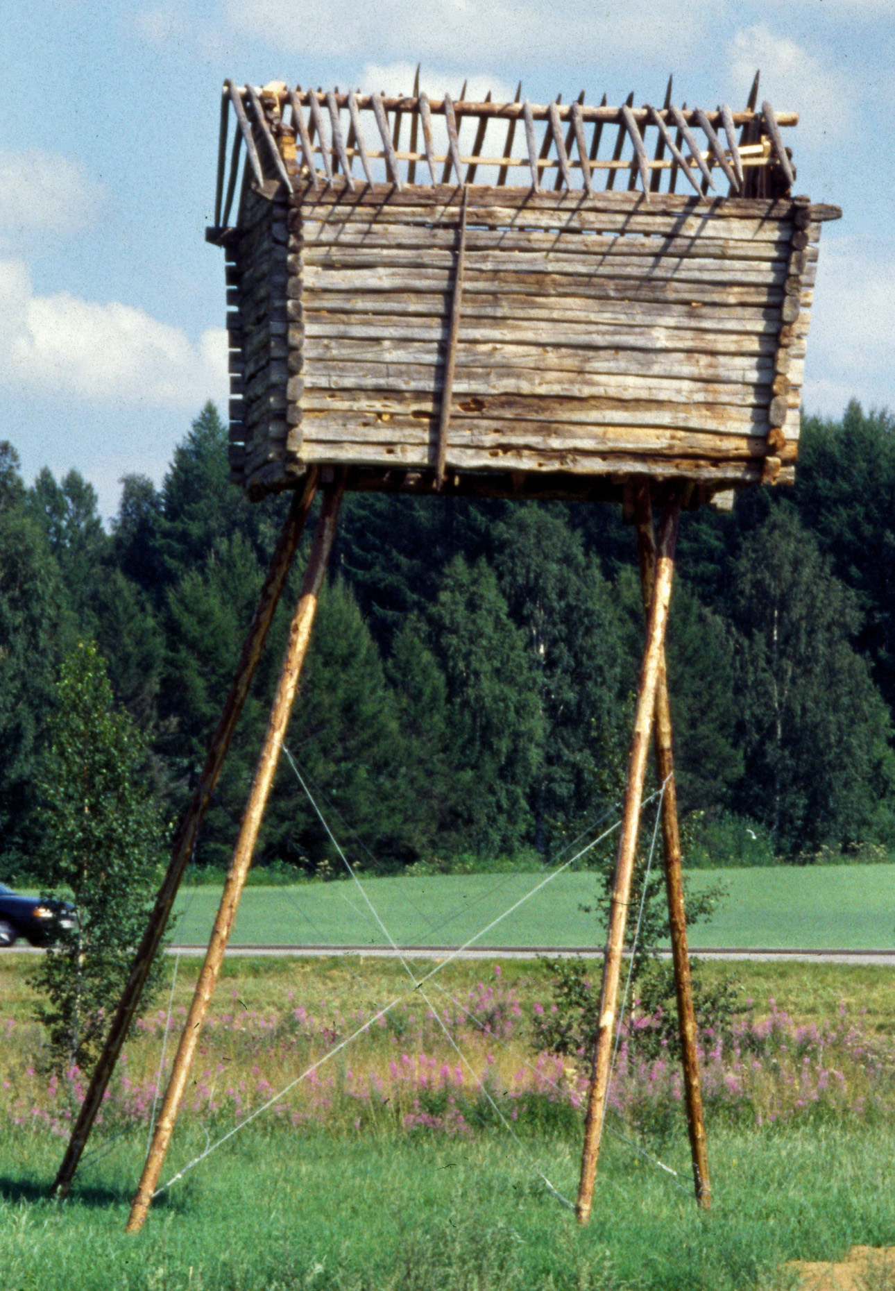 Casagrande & Rintala: Land(e)scape; Savonlinna Finland, 1999